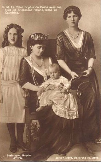 Queen Sophia of Greece and her three daughter: princesses Helen, Irene and Katherine